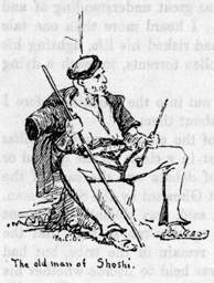 Drawing of the old man of Shoshi made by Edith Durham before 1909